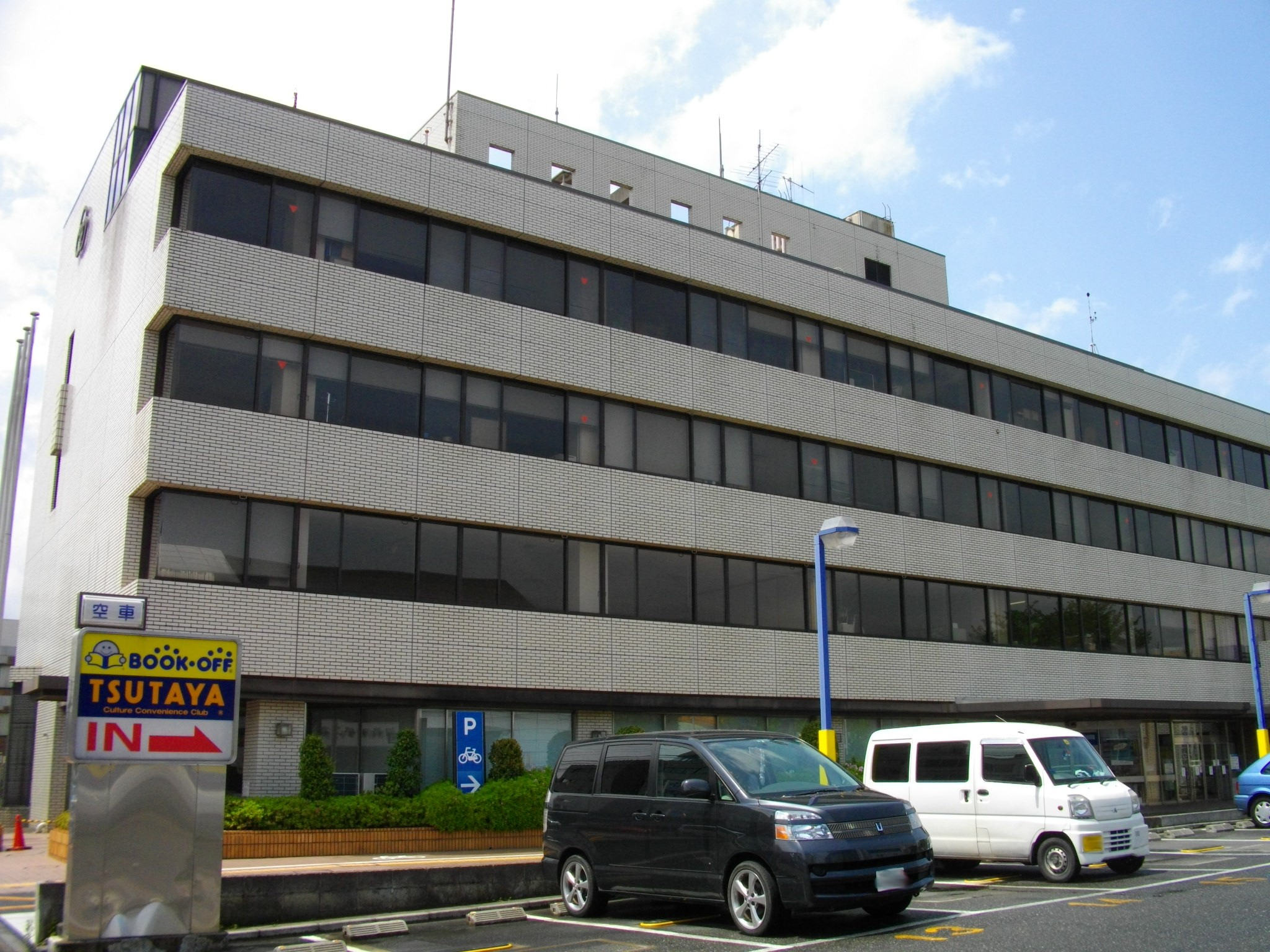 Sagamihara City Minami Municipal Center